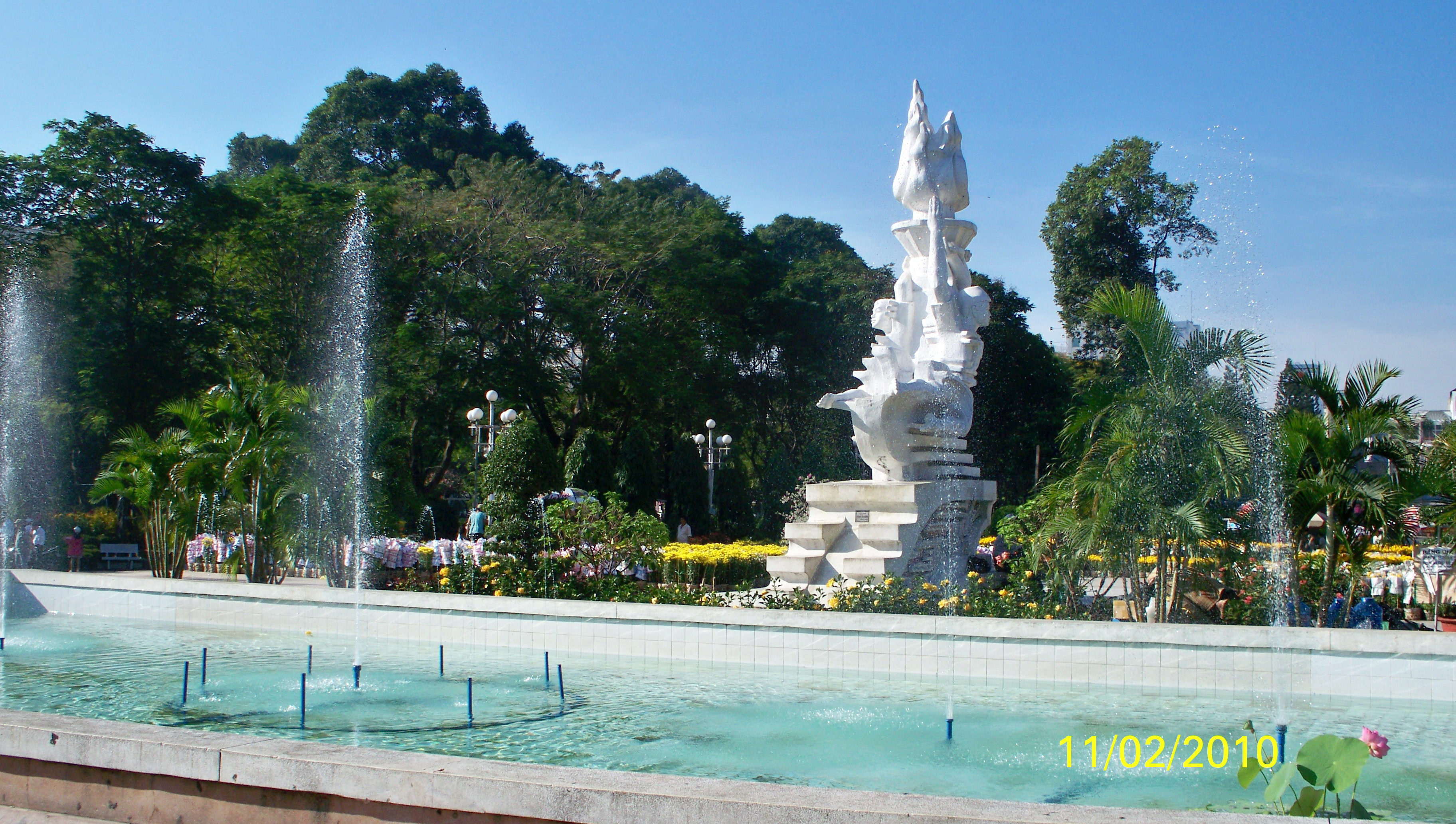 Le Van Tam park